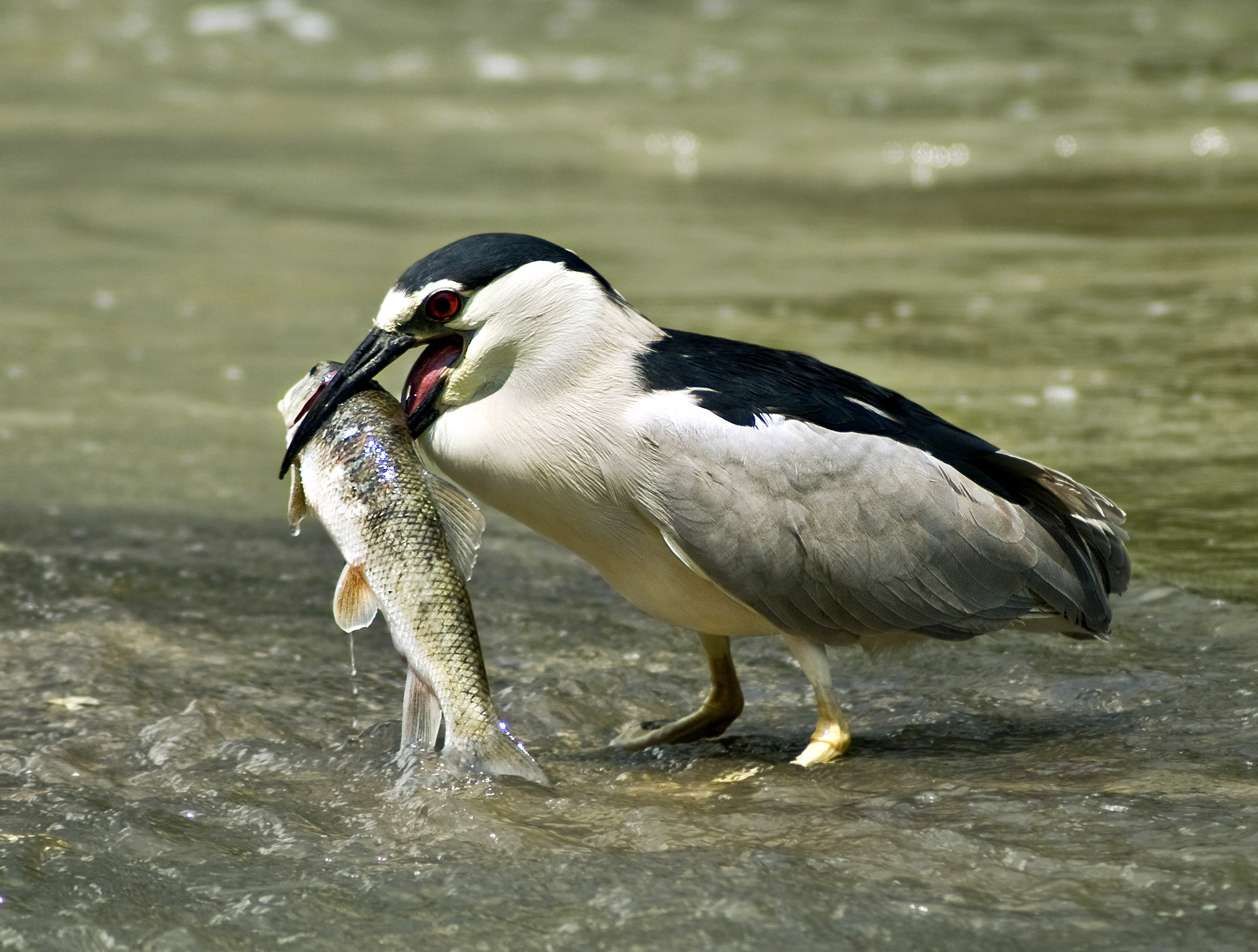 Black-crowned Night Heron